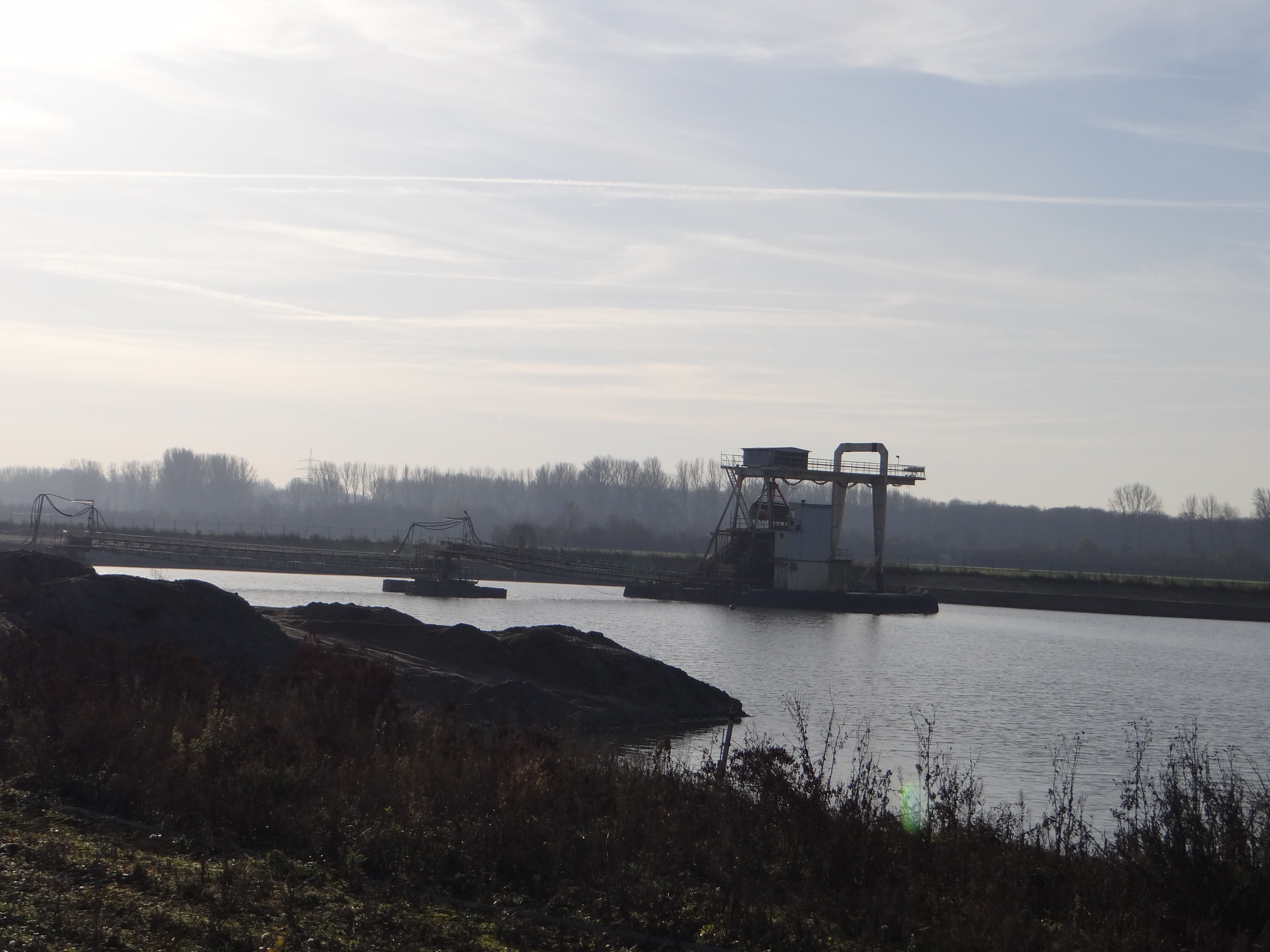 The Pferdsbroich is a nature reserve near Korschenbroich, North Rhine-Westphalia, Germany